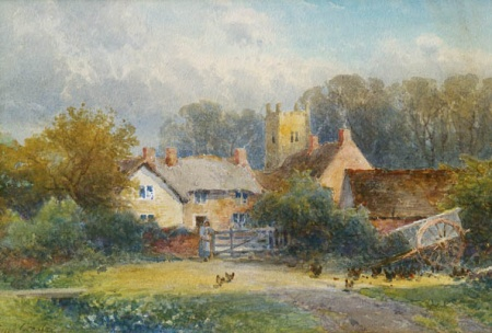 View of Swarkestone in Derbyshire